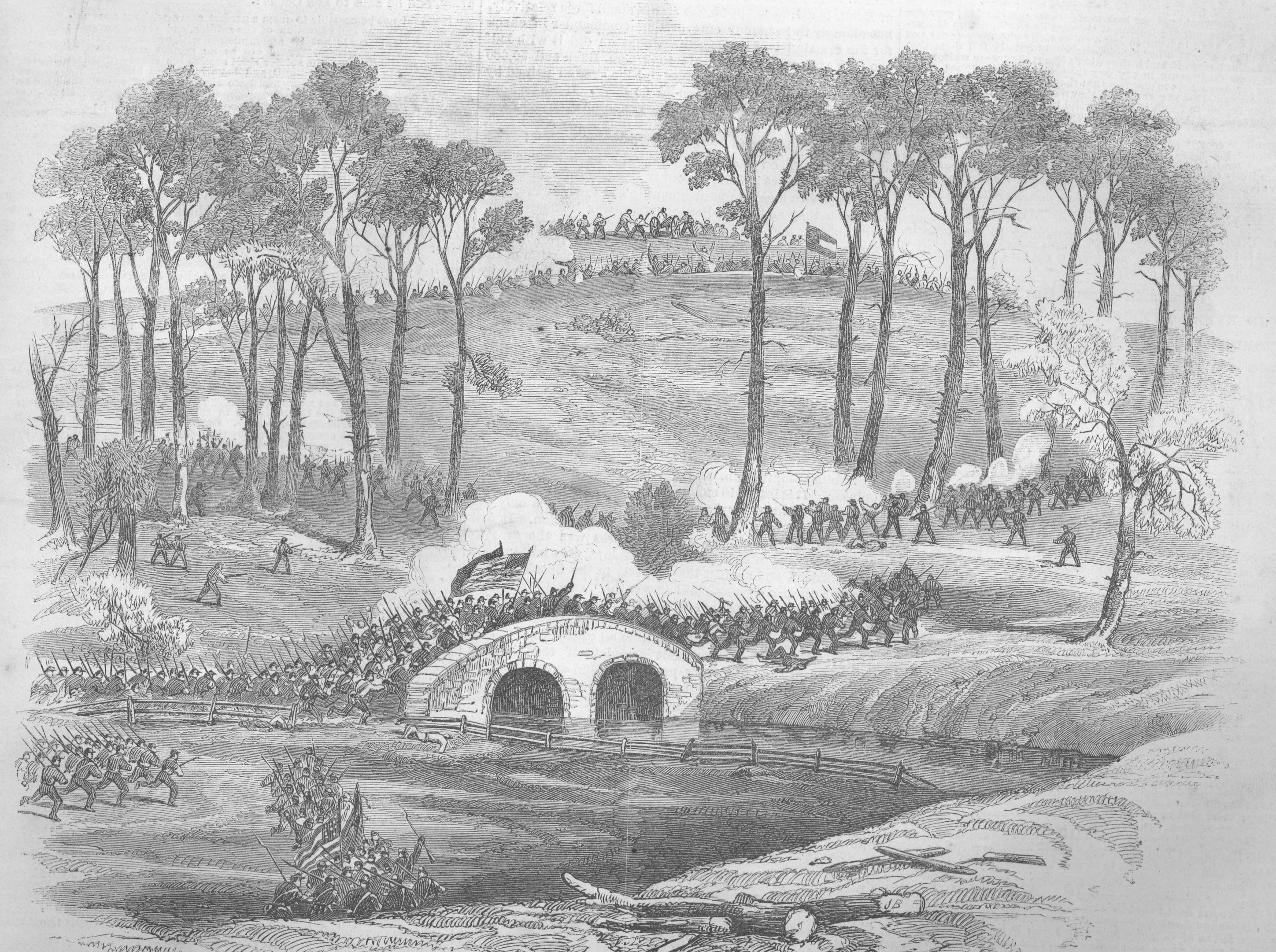 The 51st New York and 51st Pennsylvania Infantry Regiments attacking across Burnside’s Bridge over Antietam Creek.